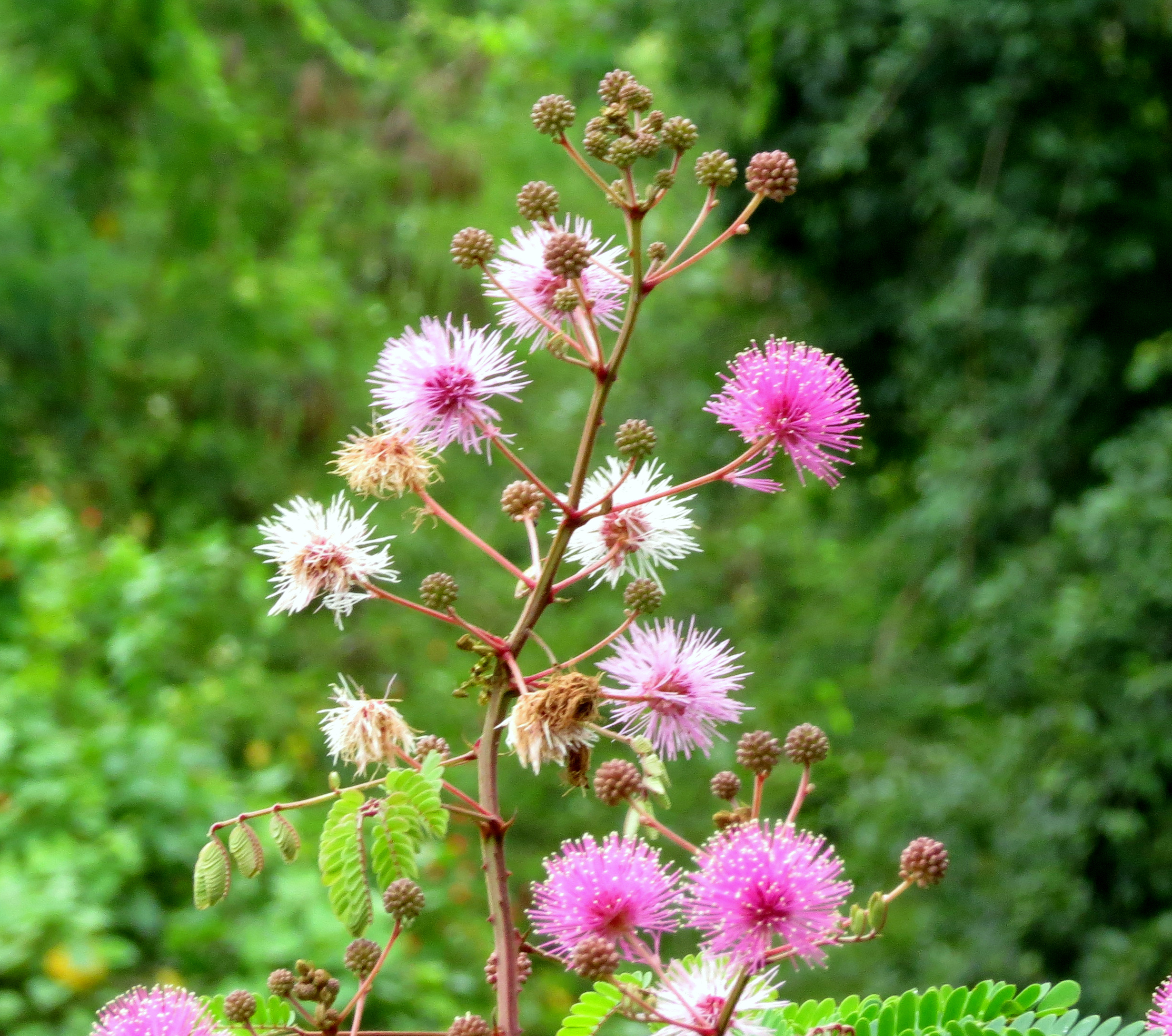 Mimosa hamata seen in Gulkamale Bangalore rural.